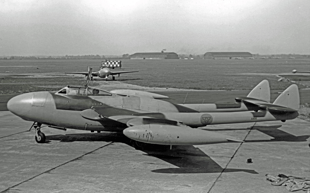 De Havilland DH.112 Venom NF.51 (J 33) 33010 of the Royal Swedish Air Force at Chester Airfield in 1953